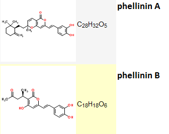 Phellinin a-B